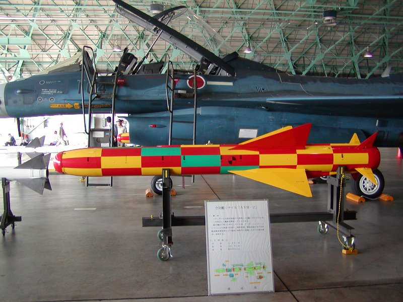 F-2B-T93ASM